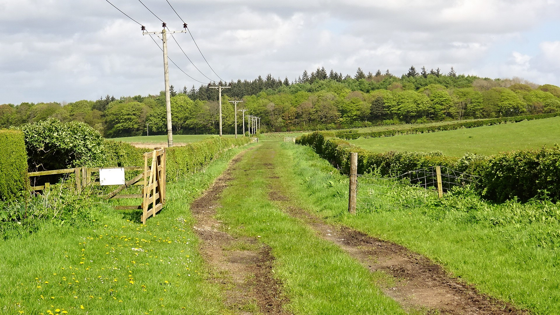 Trackbed of old Blacksyke Tower branch, Earlston, East Ayrshire - view North towards the castle.